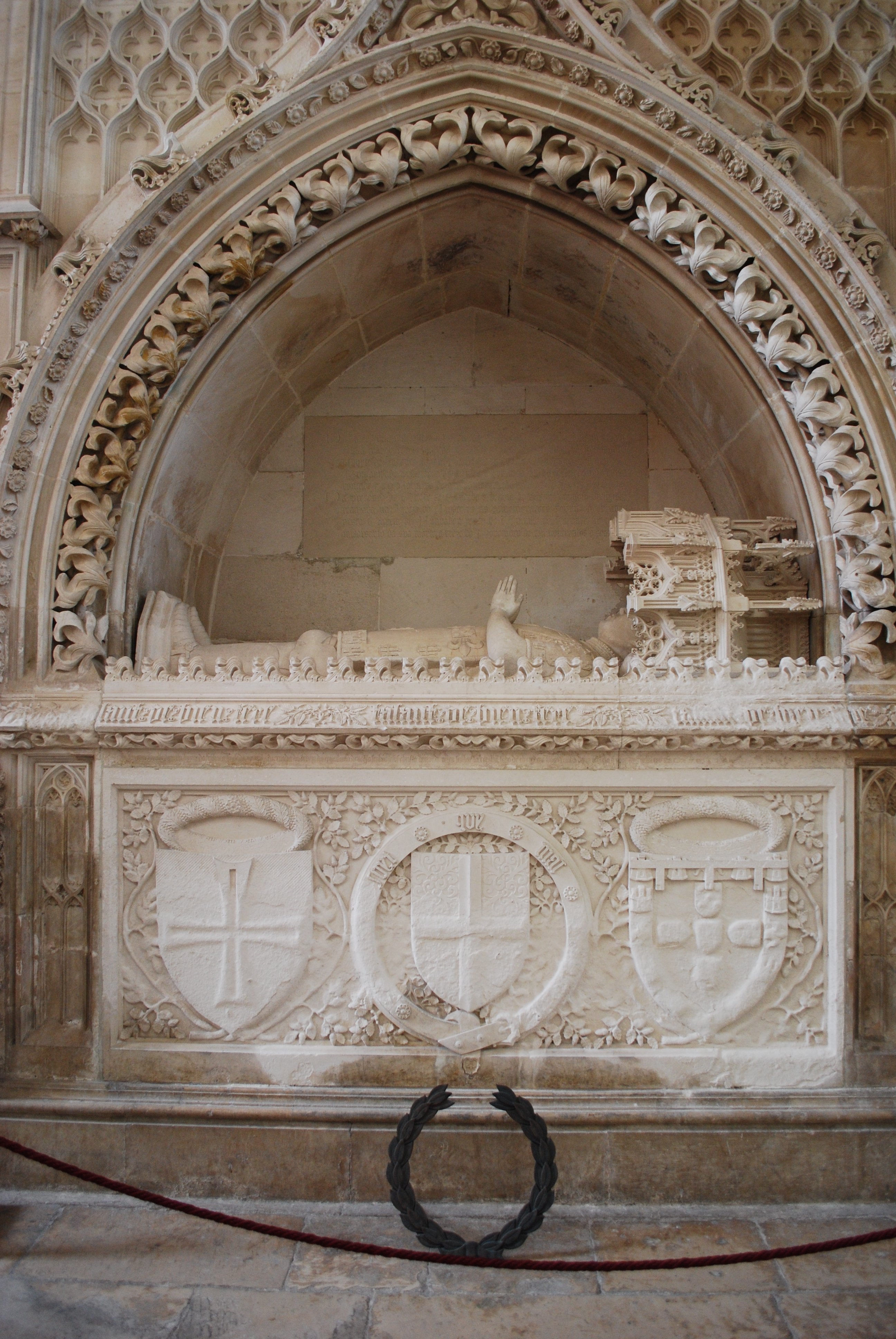 This file was uploaded for Wiki Loves Monuments in Portugal with the unique identifier 70099.